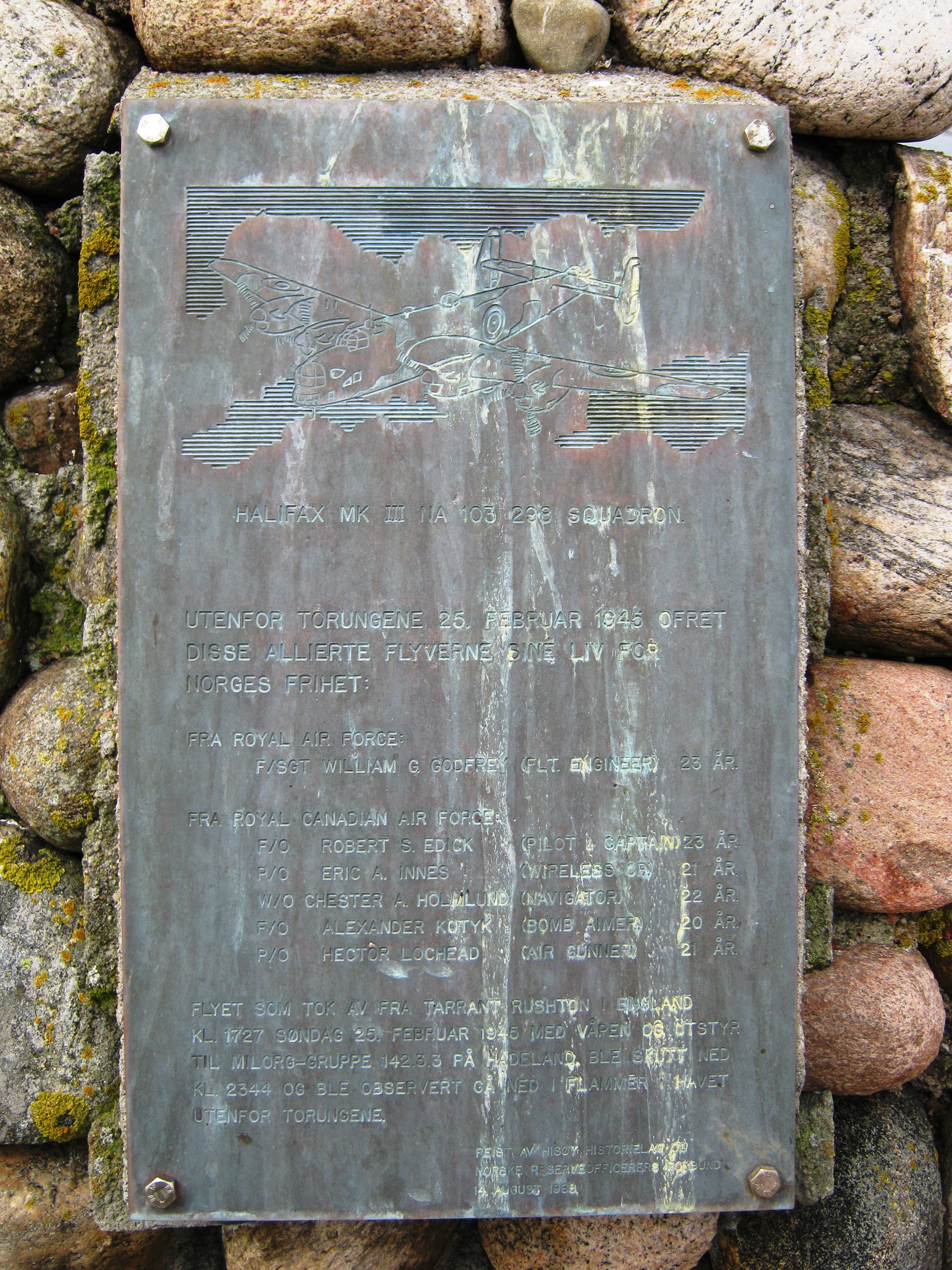 Inscription on memorial for RAF plane shot down at Torungen, Arendal February 25 1945